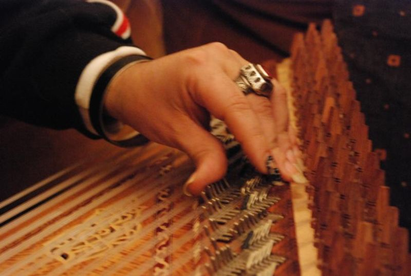 own work